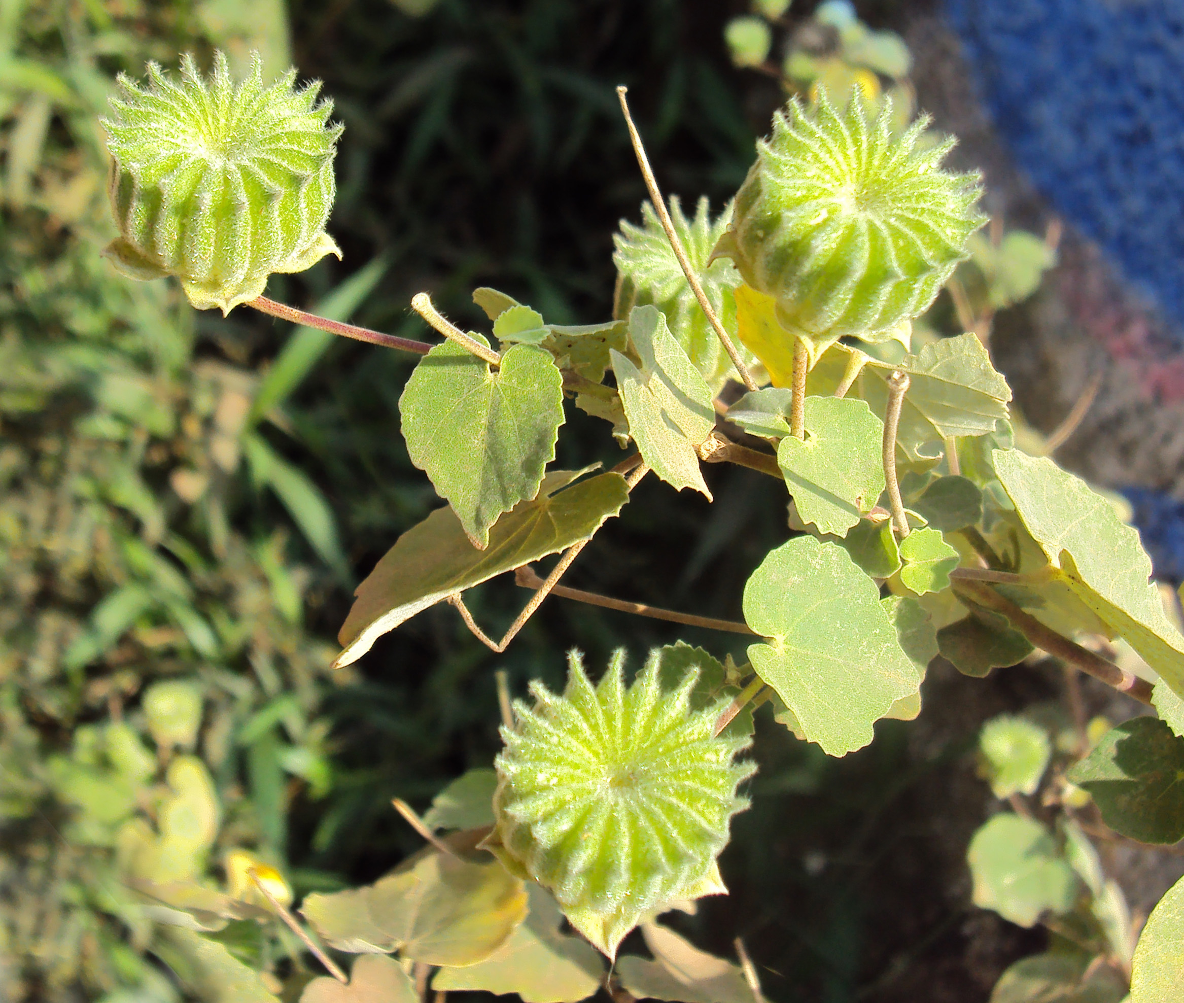 വെള്ളൂരം, ഊരകം